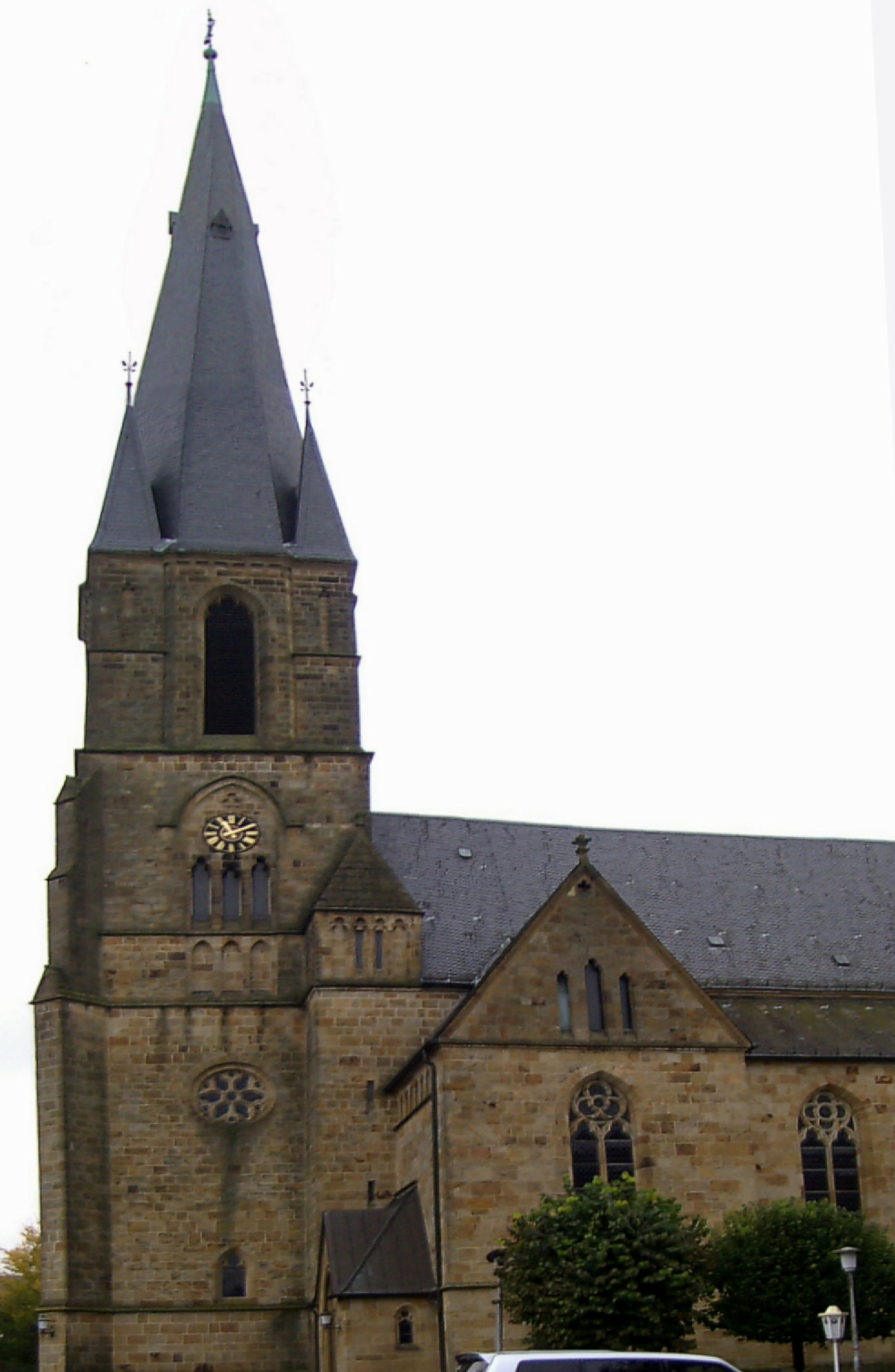 Bad Iburg-Glane, catholic church